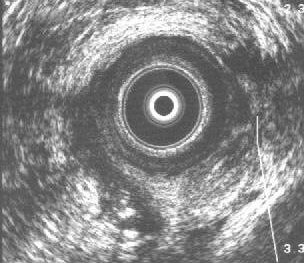 Anal fistula